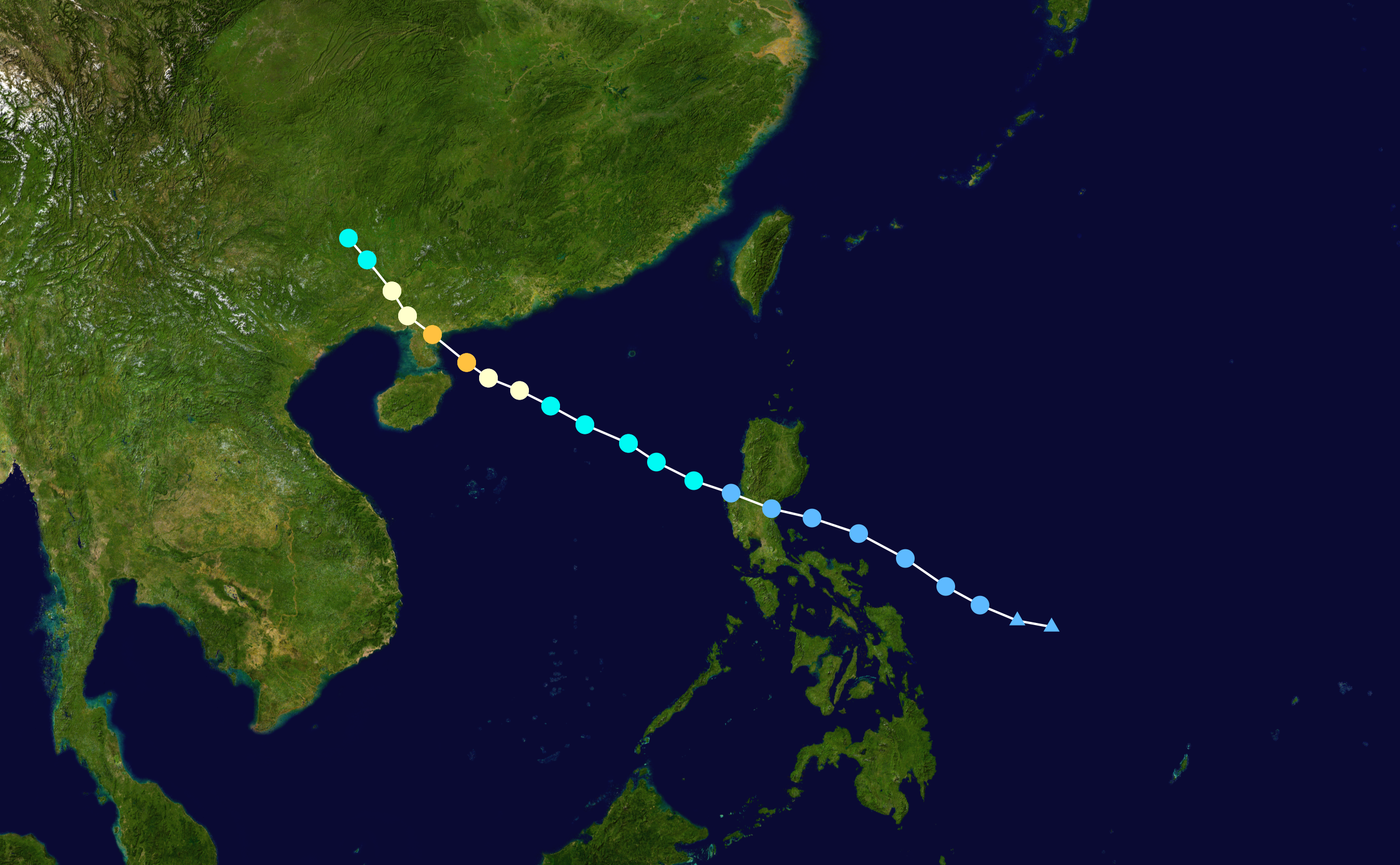 Track map of Typhoon Mujigae of the 2015 Pacific typhoon season. The points show the location of the storm at 6-hour intervals. The colour represents the storm's maximum sustained wind speeds as classified in the Saffir–Simpson scale (see below), and the shape of the data points represent the nature of the storm, according to the legend below. Saffir–Simpson scale Tropical depression≤38 mph≤62 km/h Category 3111–129 mph178–208 km/h Tropical storm39–73 mph63–118 km/h Category 4130–156 mph209–251 km/h Category 174–95 mph119–153 km/h Category 5≥157 mph≥252 km/h Category 296–110 mph154–177 km/h Unknown Storm type Tropical cyclone Subtropical cyclone Extratropical cyclone / Remnant low / Tropical disturbance / Monsoon depression